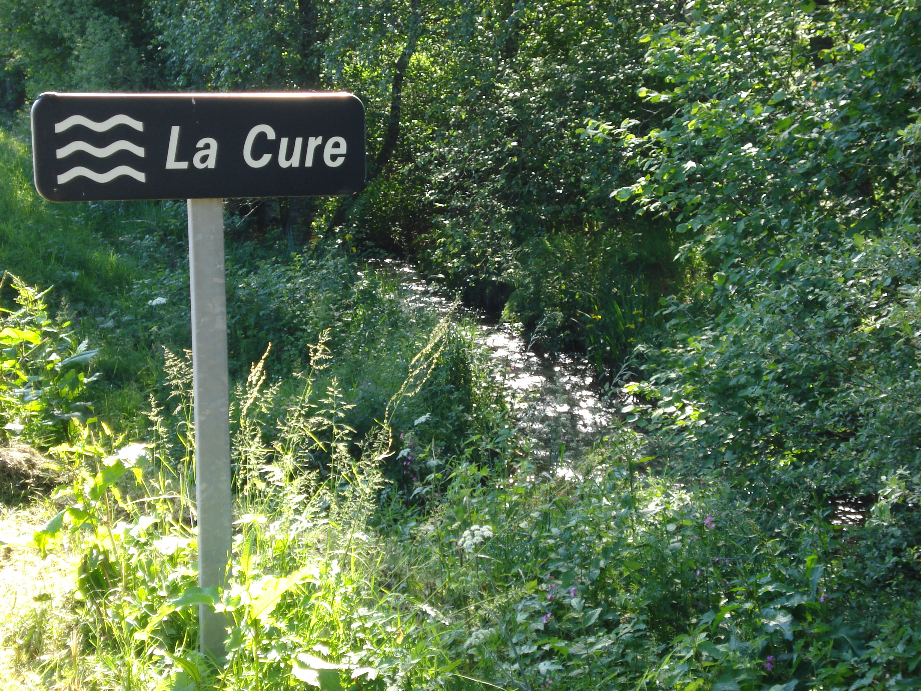 River Cure near ist source at Gien-sur-Cure.